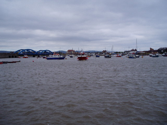 Kinmel Bay. Kinmel Bay taken from the sea. The double arches of the Foryd Bridge can be seen on the left, which spans the river Clwyd's estuary.